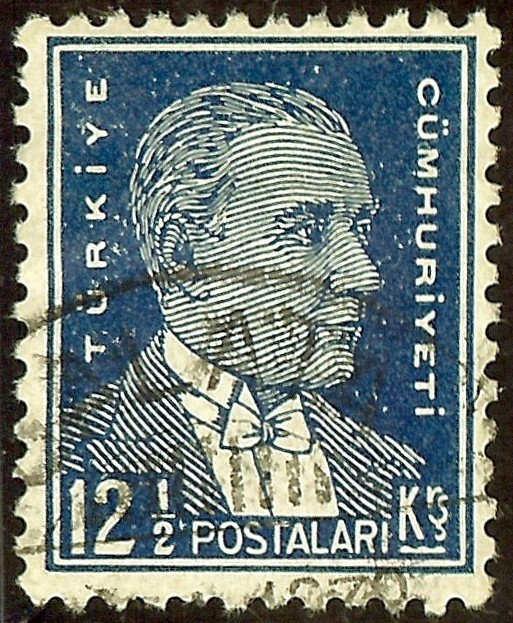 1932 postage stamp from Turkey, Scott catalog 750